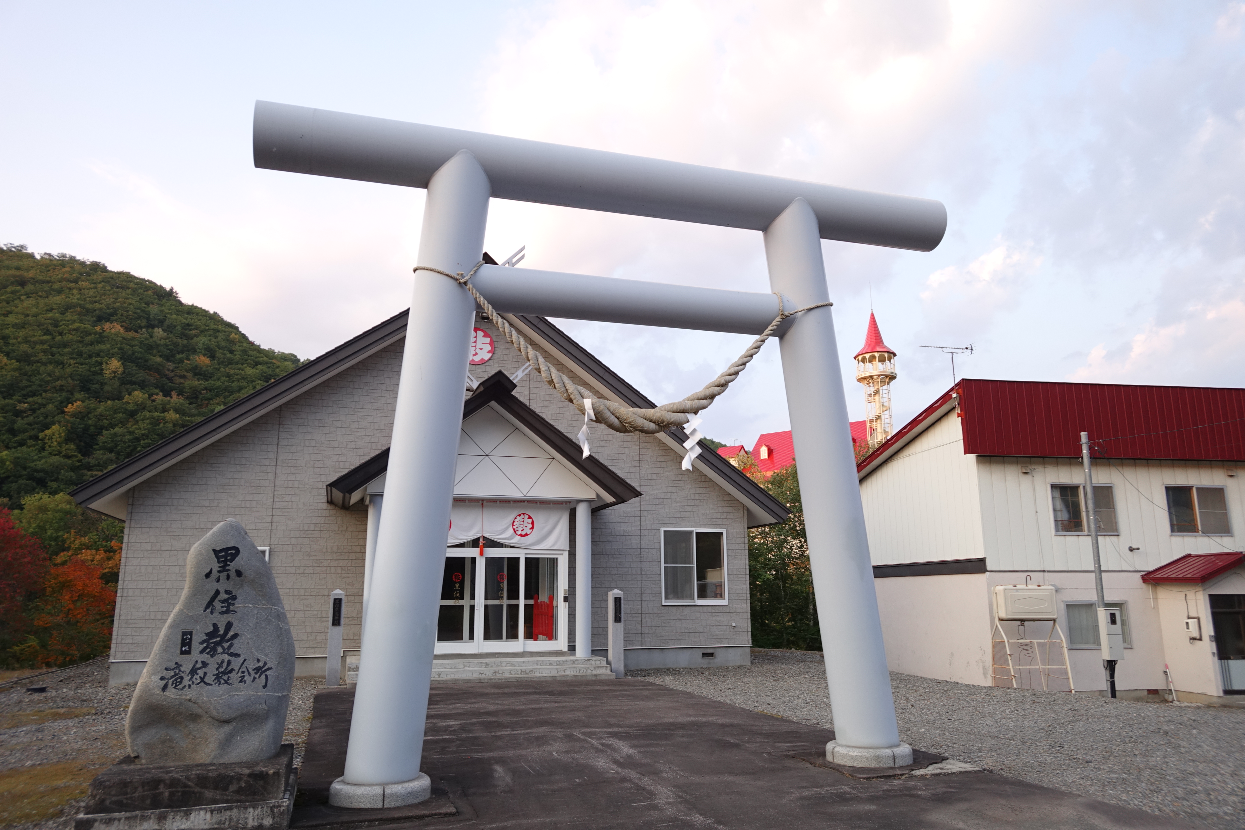 Torii and meeting place of Kurozumikyō in Takinoue town, Hokkaido Japan